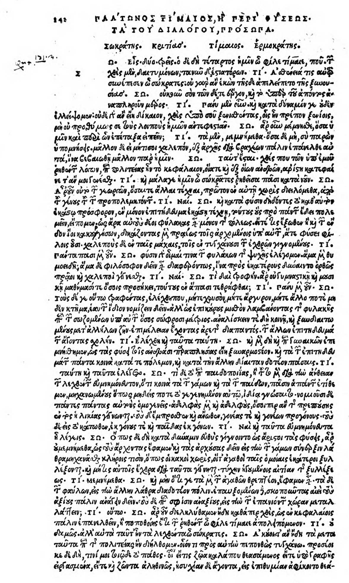 Timaios beginning. Editio princeps, Venice 1513.